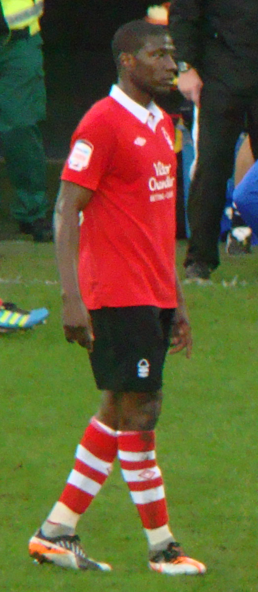 Guy Moussi